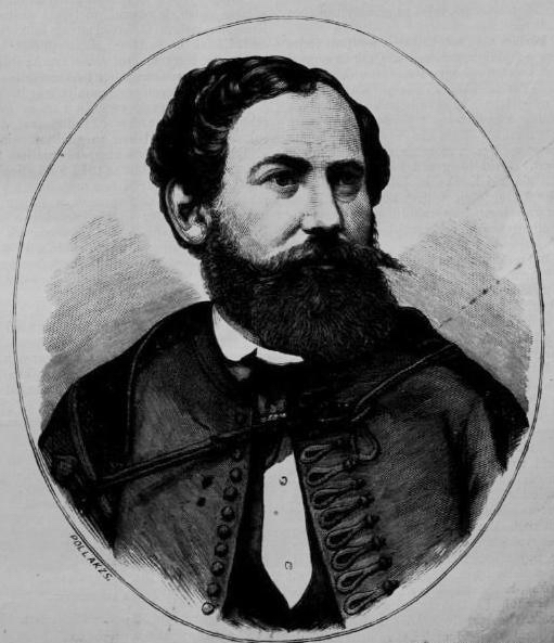 Portrait of Gereben Vas